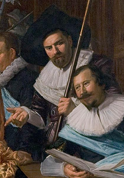 Detail Nicolaes Olycan, looking over the shoulder of Hendrik Gerritsz Pot in Officers and subalterns of the Calivermen Civic Guard, Haarlem